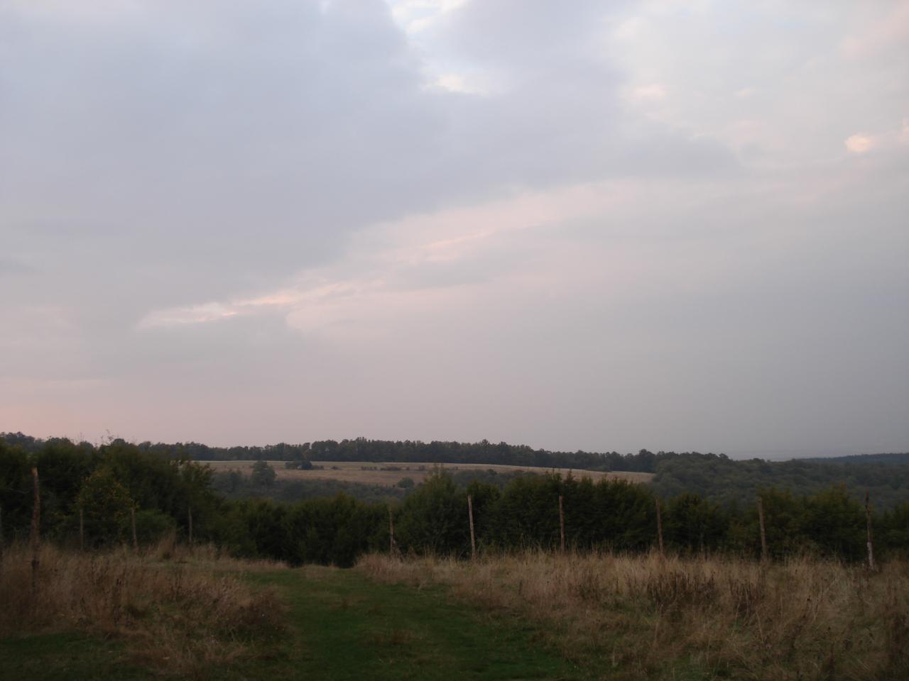 Lyulin bank, Lyulin mountain, Bulgaria